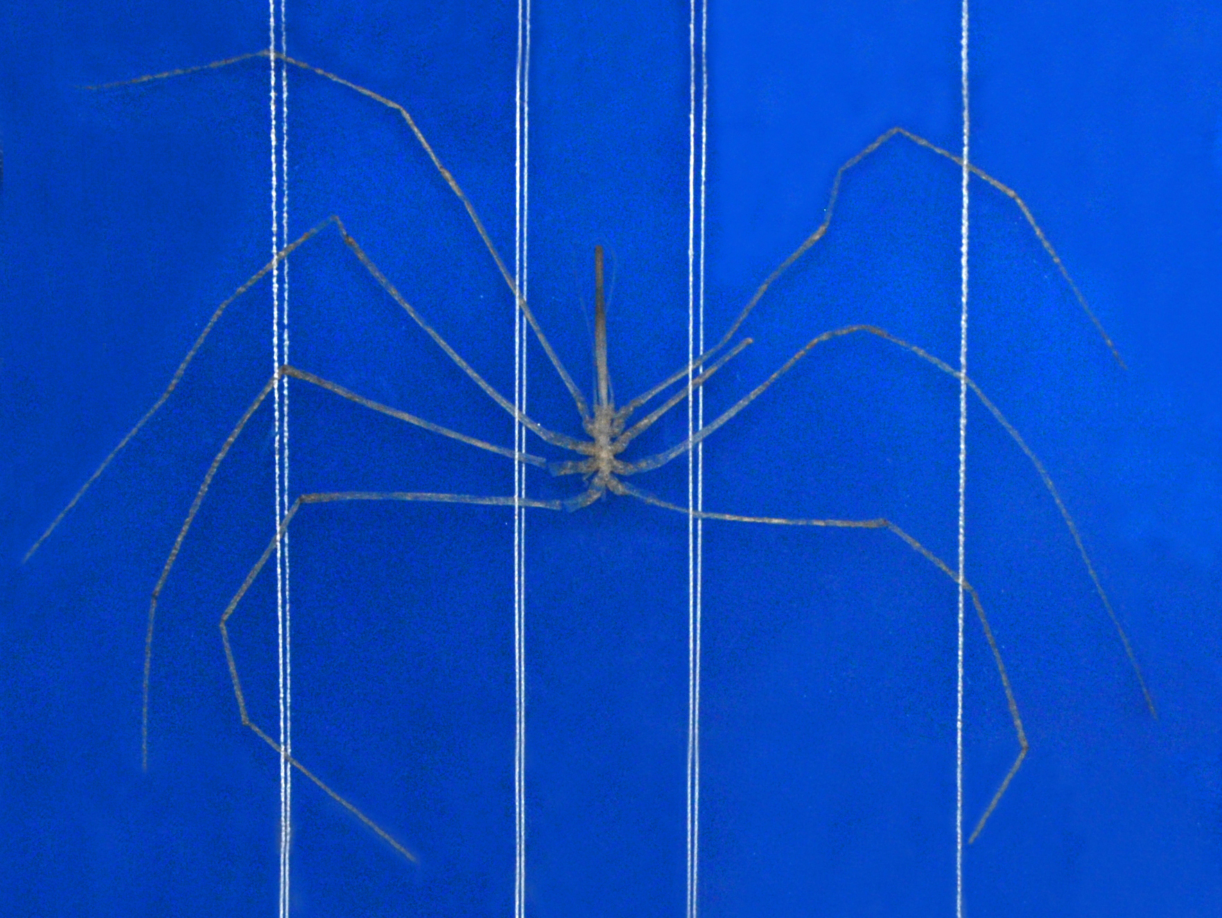 Colossendeis macerrima from Atlantic Ocean. Museum specimen